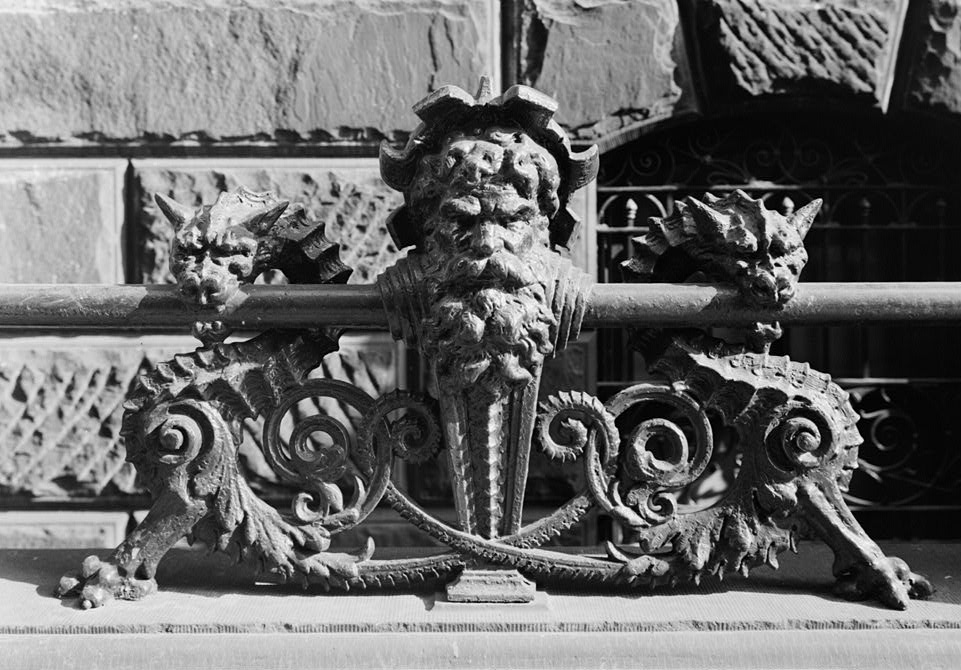 Dakota Apartments, 1 West Seventy-second Street, Central Park West, New York, New York County, NY